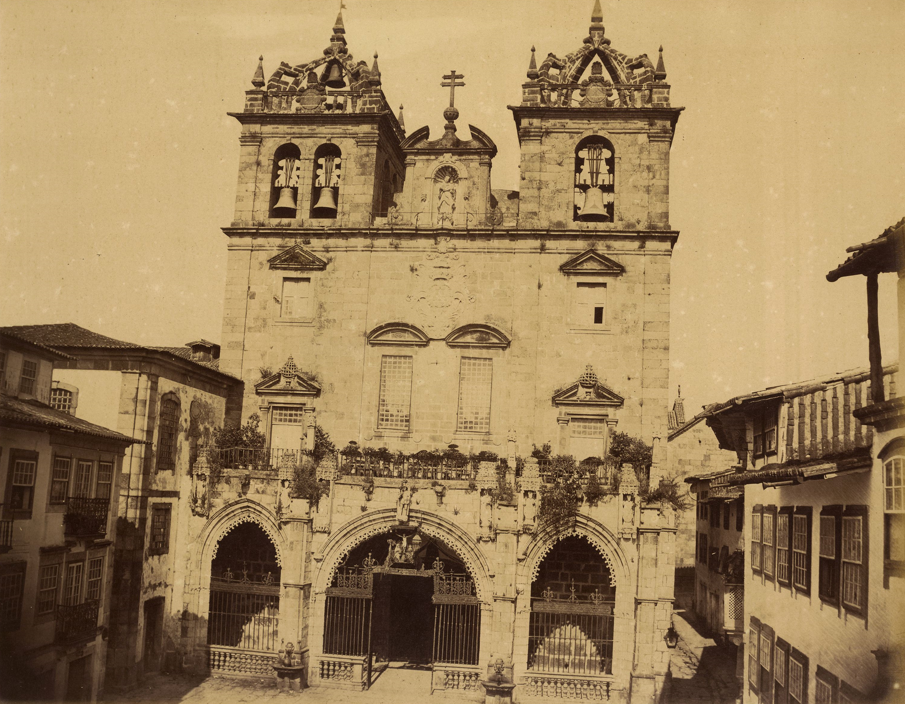 Braga Cathedral in the middle of XIX century.